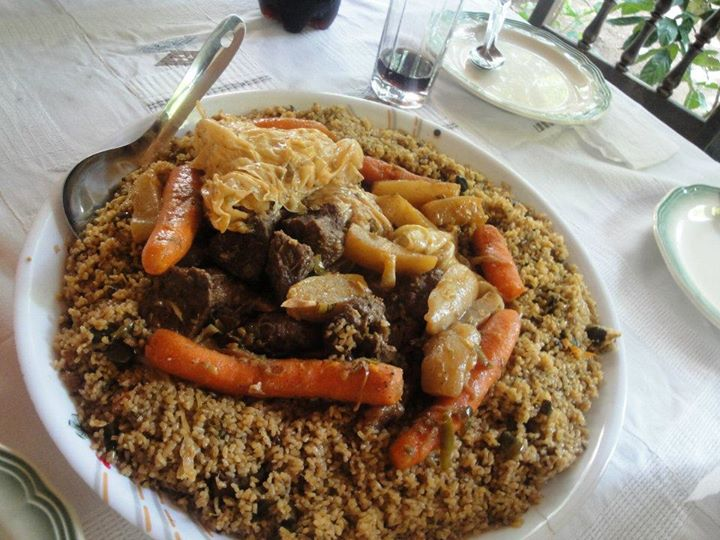 This is an image of food from Ivory Coast